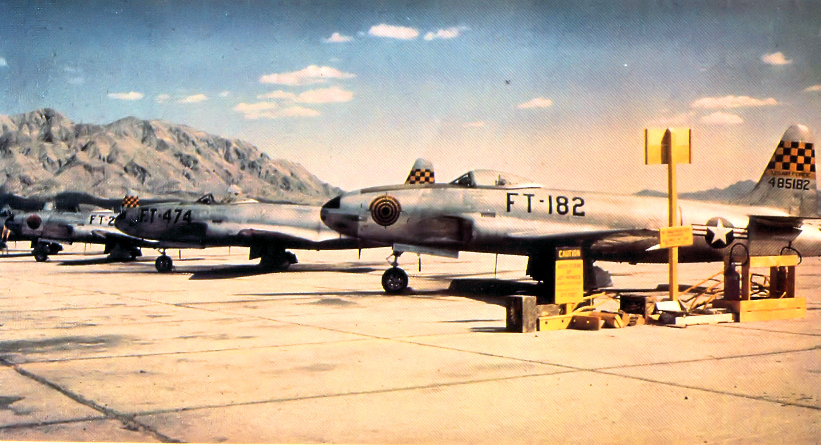 USAF Fighter Weapons School F-80 44-85182 about 1950